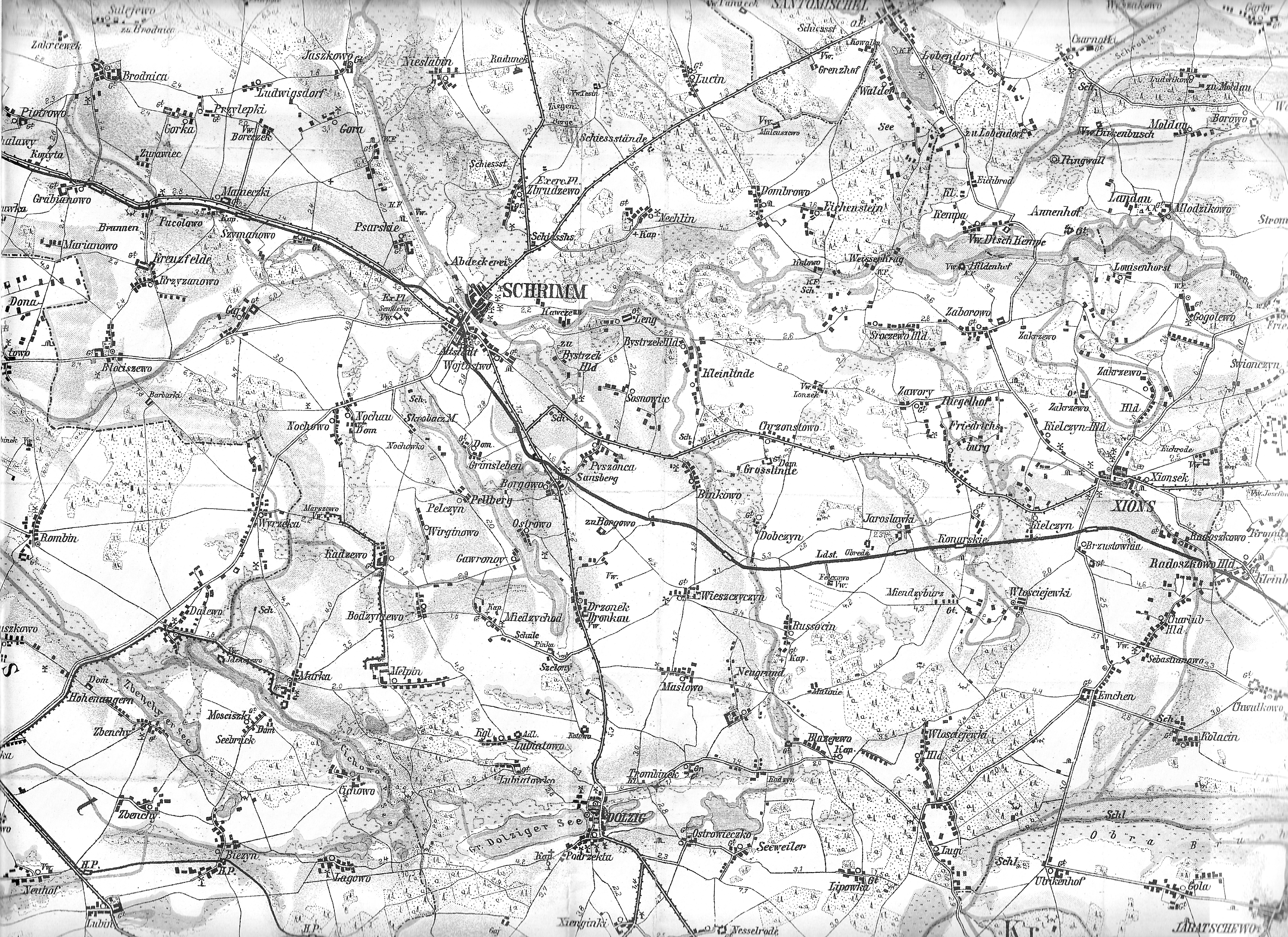 Fragment of a map of Schrimm (Śrem) County in Poland from 1914